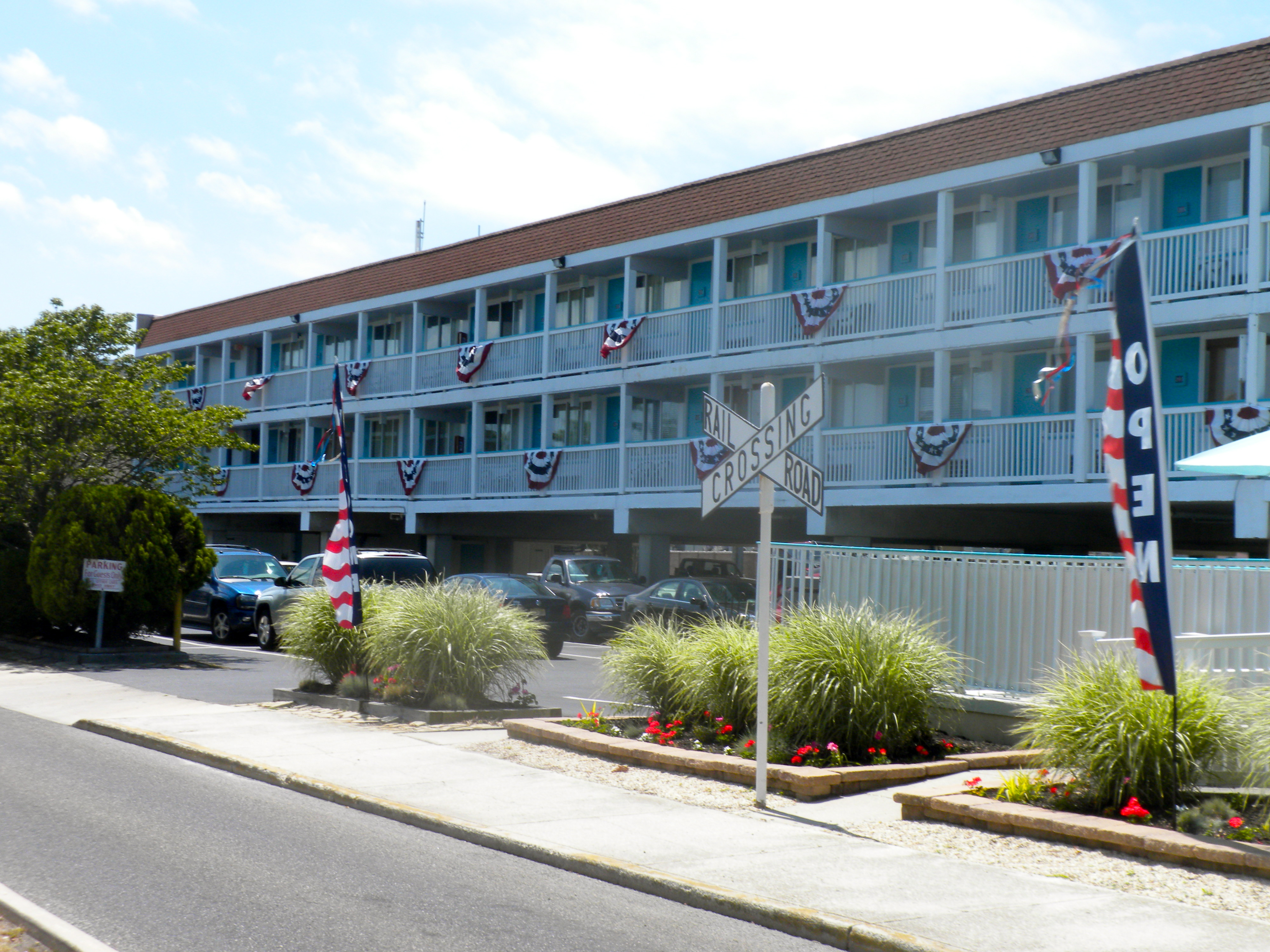 Site of the Ocean City 34th Street Station (railroad) on the NRHP since June 22, 1984, and not removed. Now a motel.Just south of 34th St. on Haven St. in Ocean City, New Jersey. The railroad crossing sign presumably shows where the demolished building stood, though it must have stretched out a bit. A Wawa convenience store stand exactly on the corner at 34th.